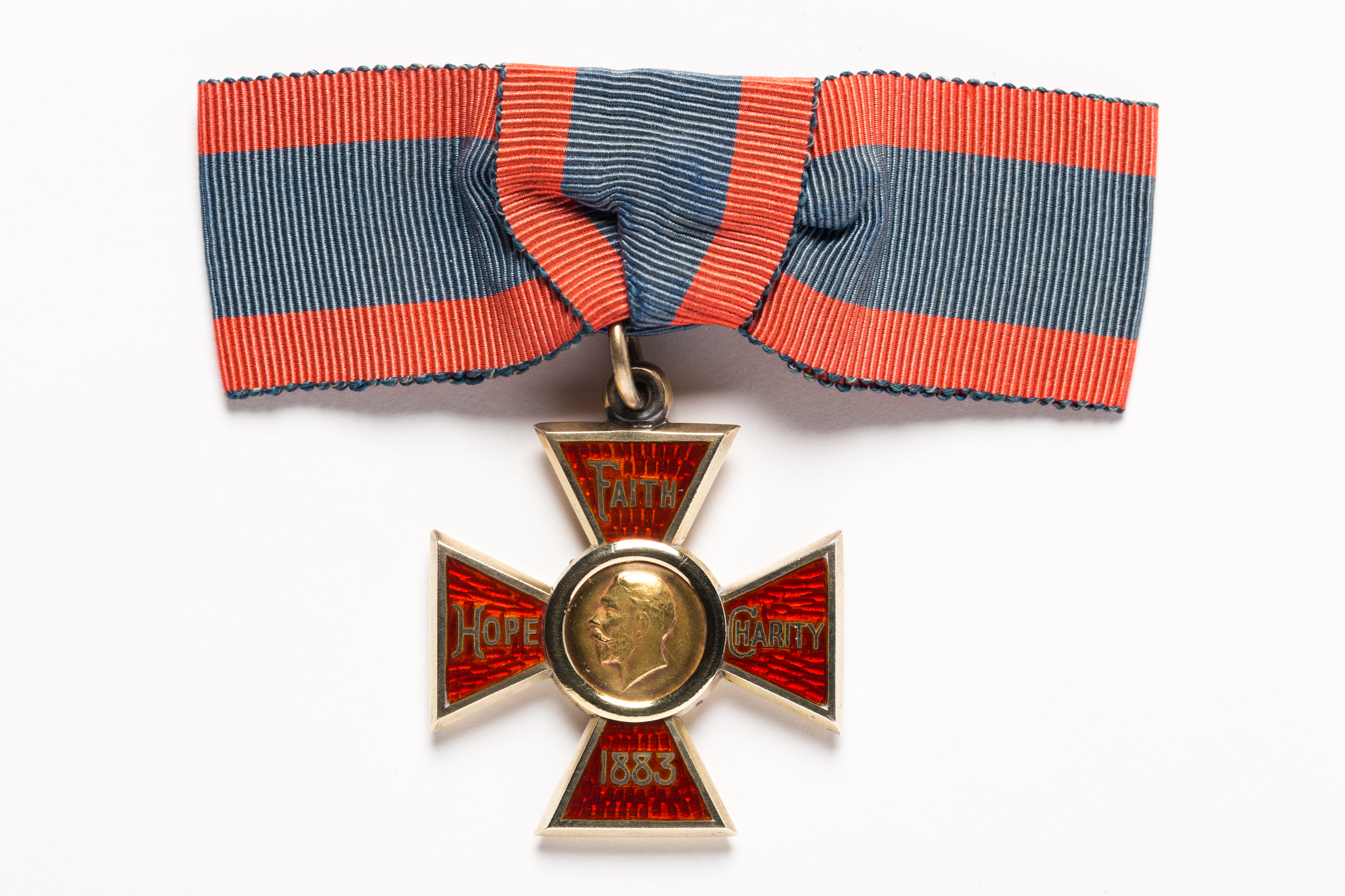 Royal Red Cross 1st Class (RRC) Medal awarded to 22-12 Matron Cora B Anderson, NZANS, WW1 golden cross, 35 mm width, plain ring suspension, with ribbon Obverse- enamelled red, with broad silver edges around the enamel; a circular medallion bearing effigy of King George V. The words "Faith", "Hope" and "Charity" are inscribed on the upper limbs of the cross, with the year "1883" in the lower limb. Reverse- plain except a circular medallion bearing the Royal Cypher of the George V ribbon- 28mm wide grosgrain, dark blue with crimson edge stripes